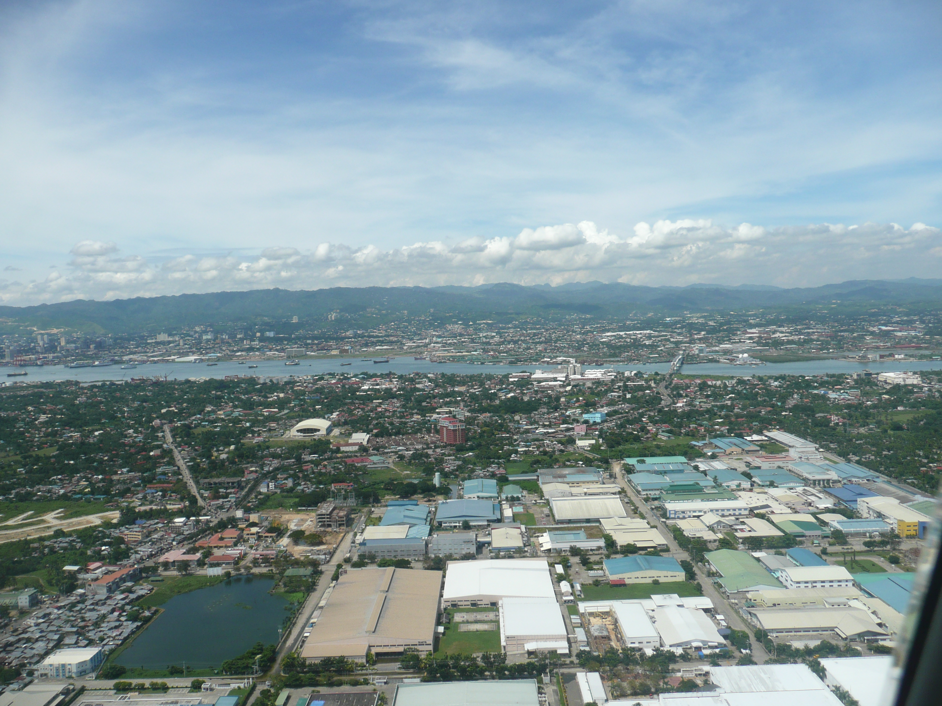 Aerial view of Mactan Island and Lapu-Lapu City, with Cebu in the background